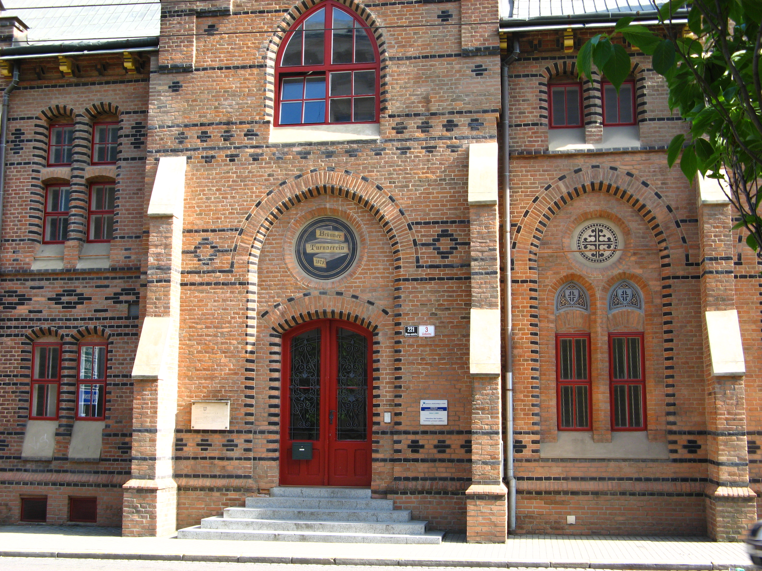 Drill-hall "Pod Hradem", Faculty of Sports Studies, Masaryk University, Brno.